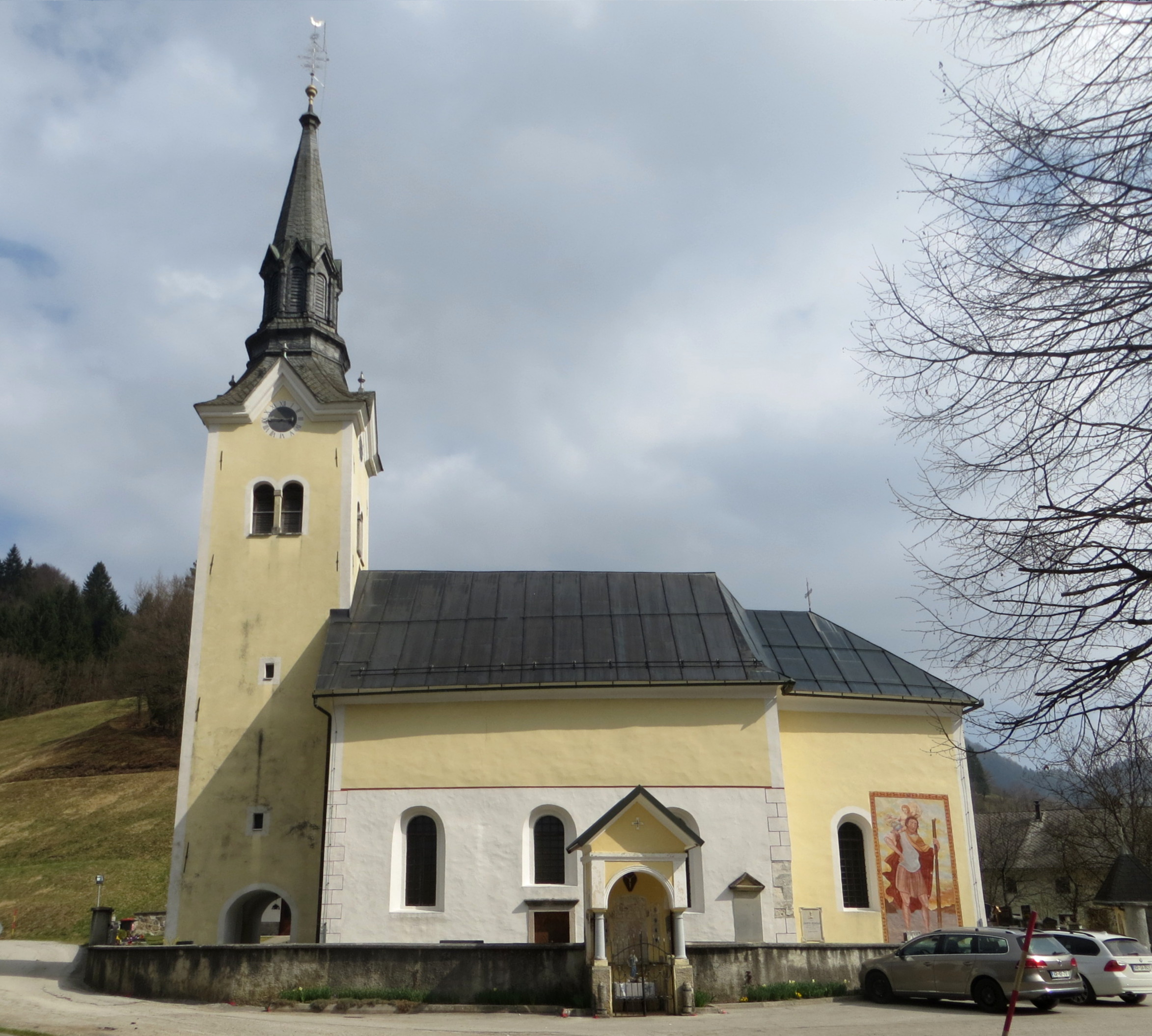 Saint Clement's Church in Bukovščica, Municipality of Škofja Loka, Slovenia